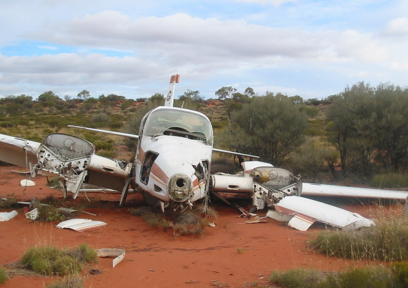 Plane wreck photo taken 2 January 2006 by gazjo